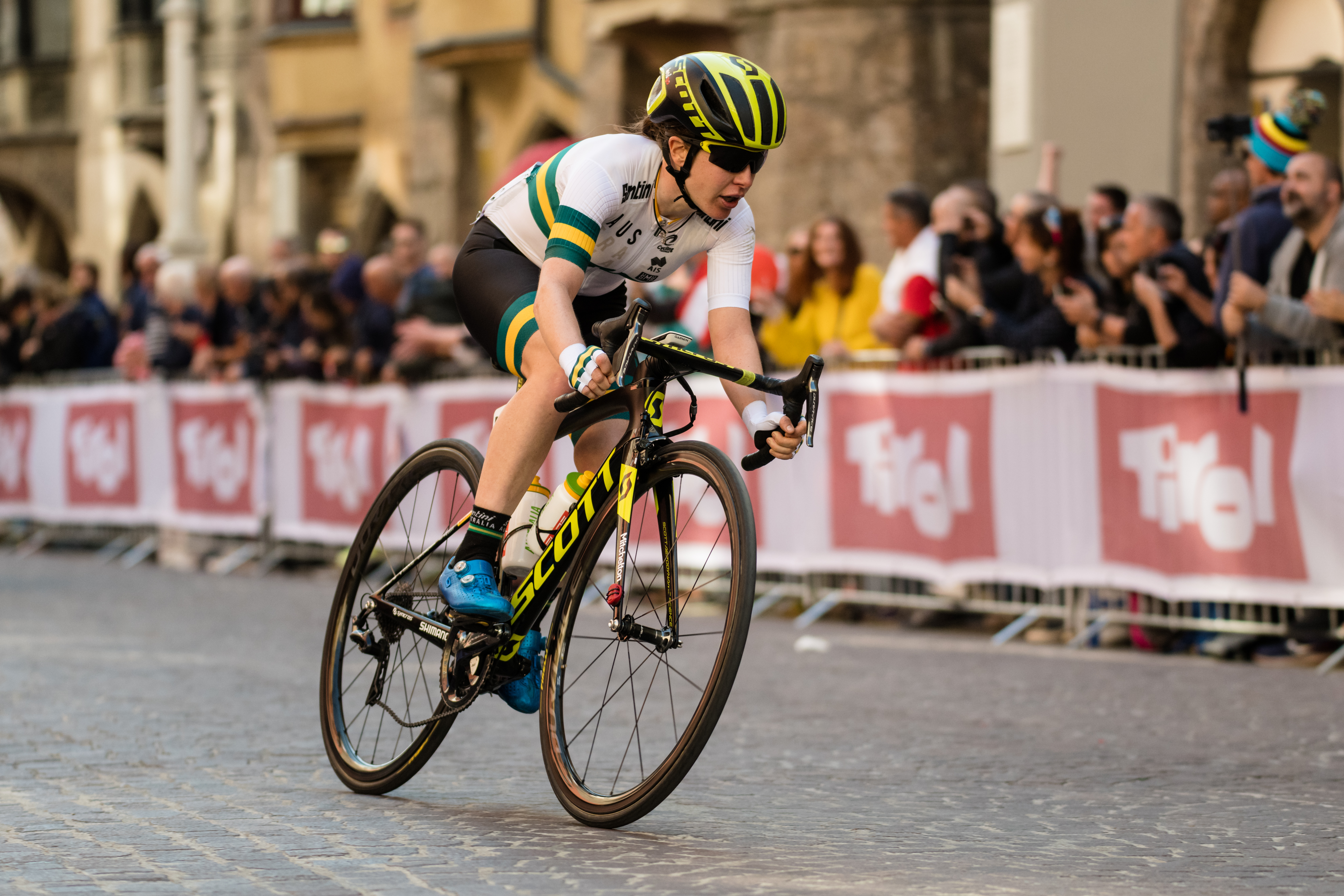 2018 UCI Road World Championships Innsbruck/Tirol Women Elite Road Race. Picture shows: Amanda Spratt of Australia